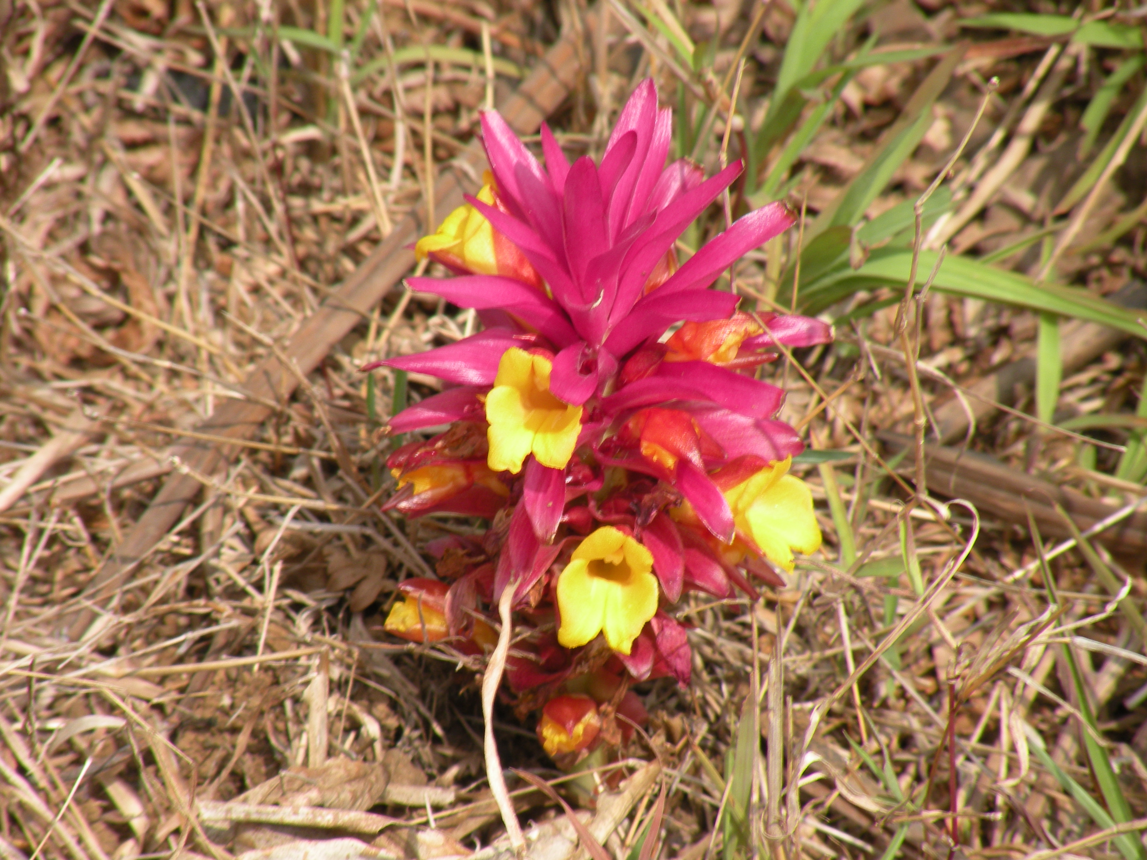 Curcuma pseudomontana in the Brahmagiri Wildlife Sanctuary